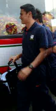 Kiatisuk Senamuang, before the 2011 AFC Asian Cup match against Singapore at Rajamangala Stadium.